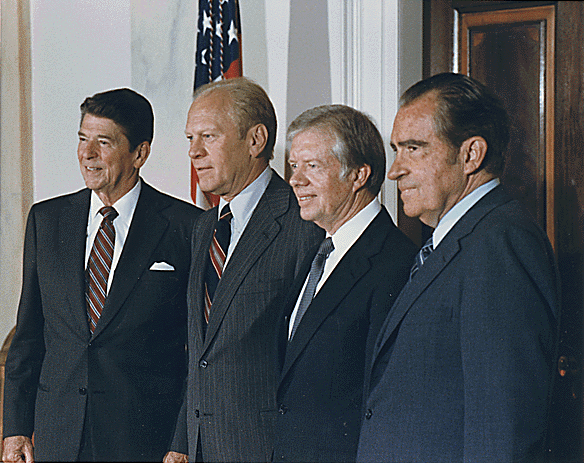 Four Presidents: President Ronald Reagan with his three predecessors.